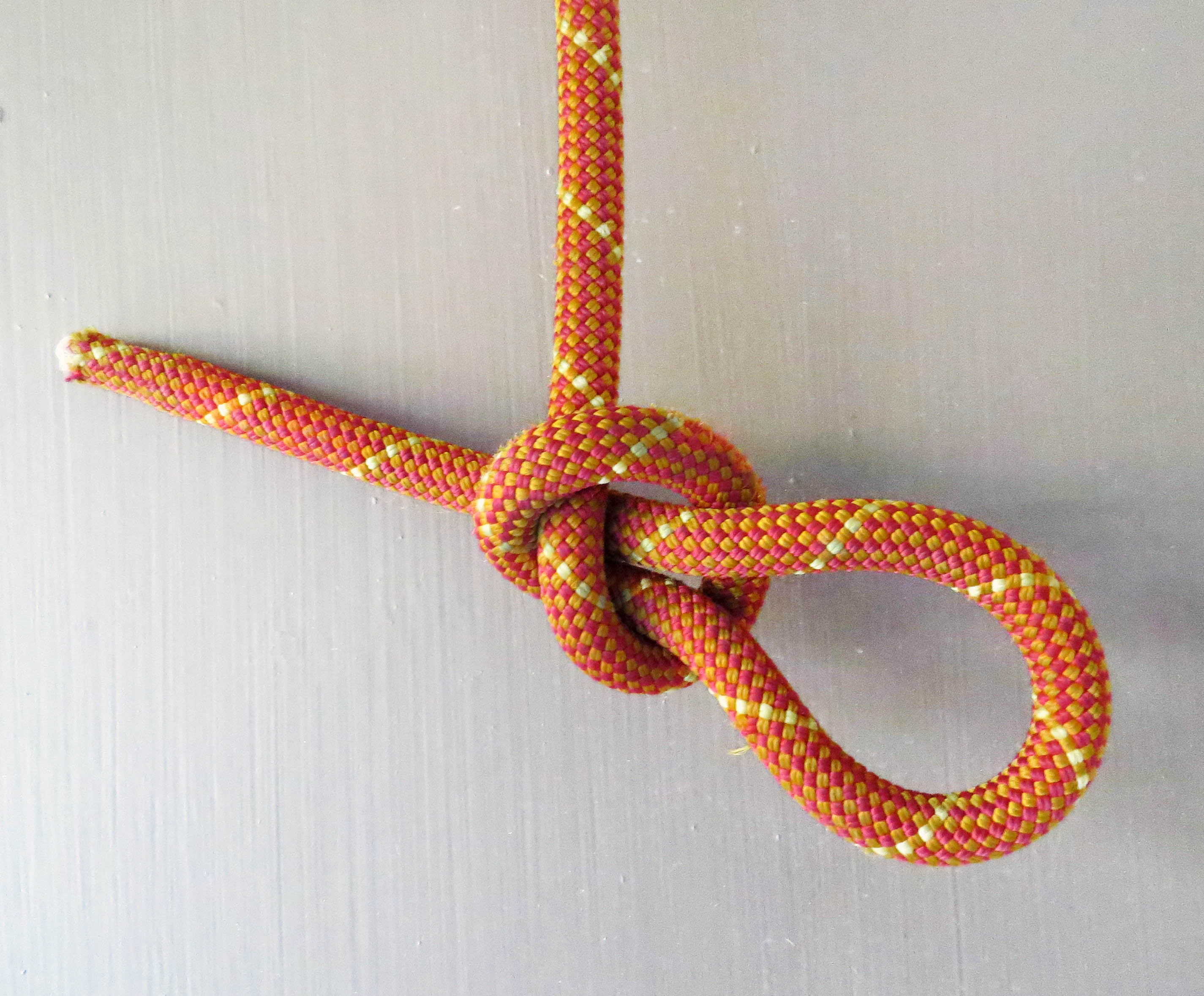 Tensionless hitch